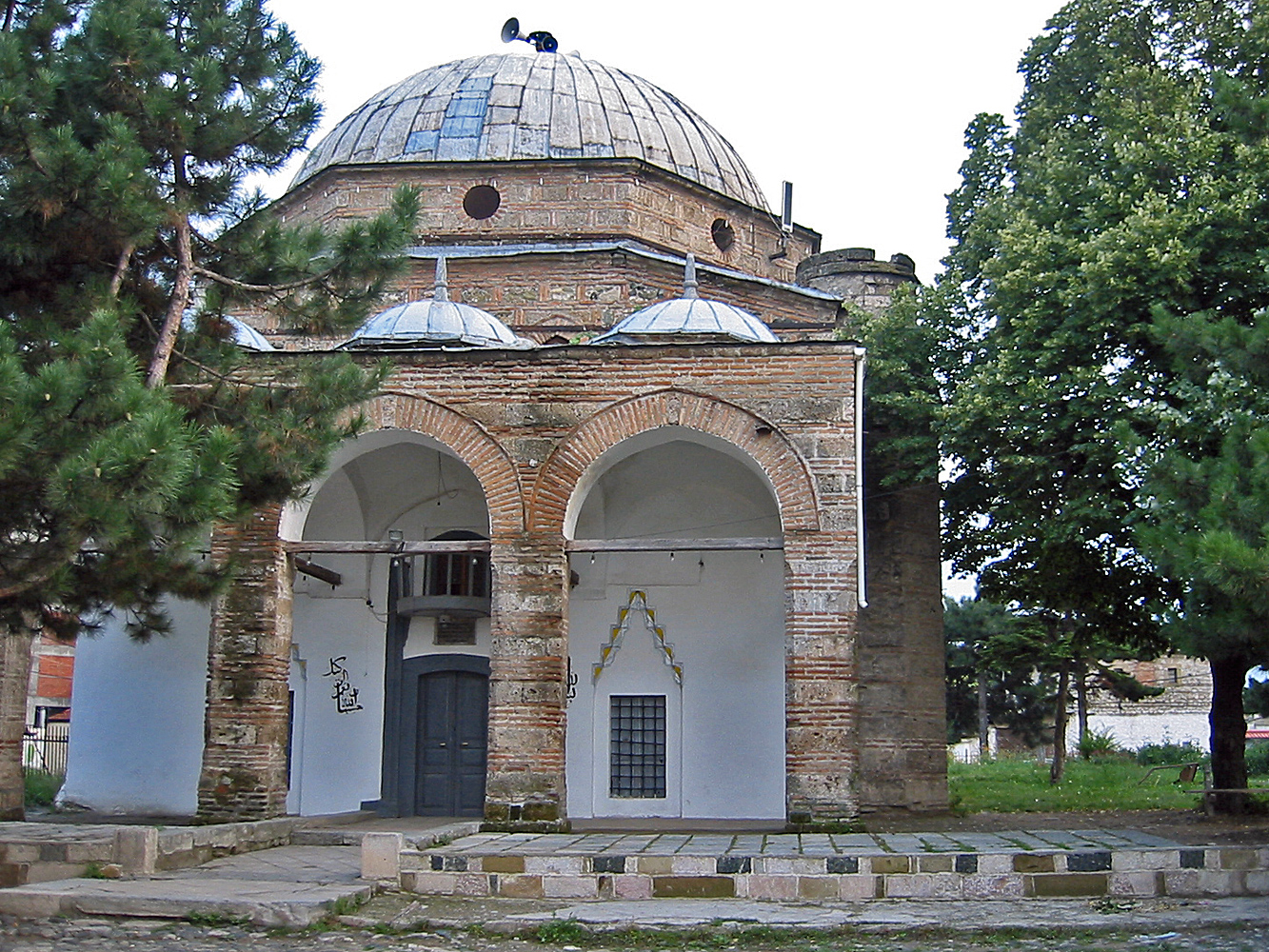 Mirahori Mosque in Korça, Albania